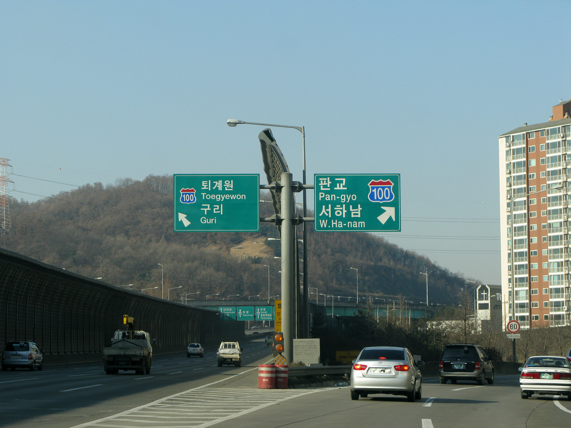 Jungbu Expressway, Seoul Ring Expressway Hanam JCT